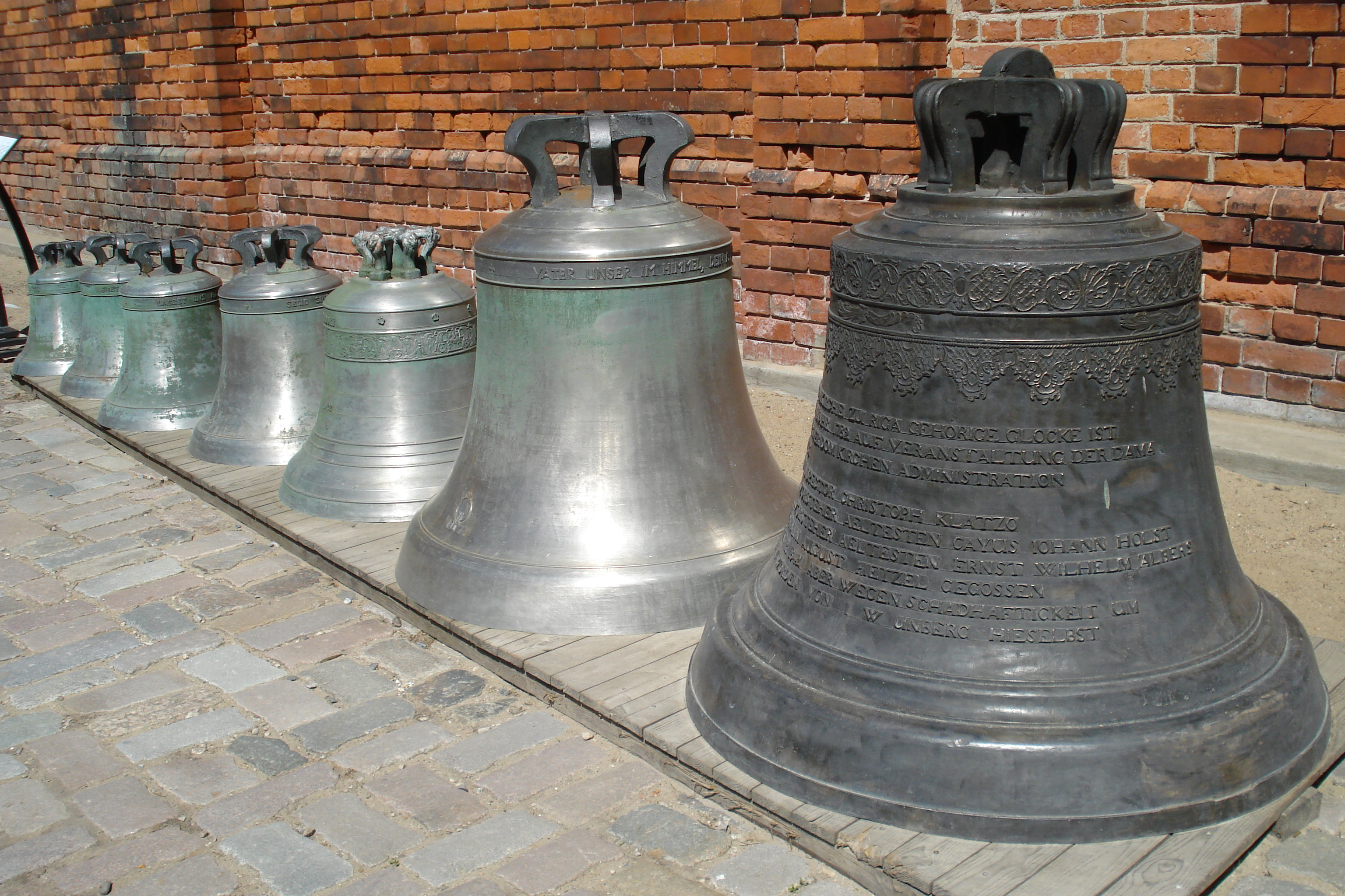 The church bells in the yard of the Riga Cathedral